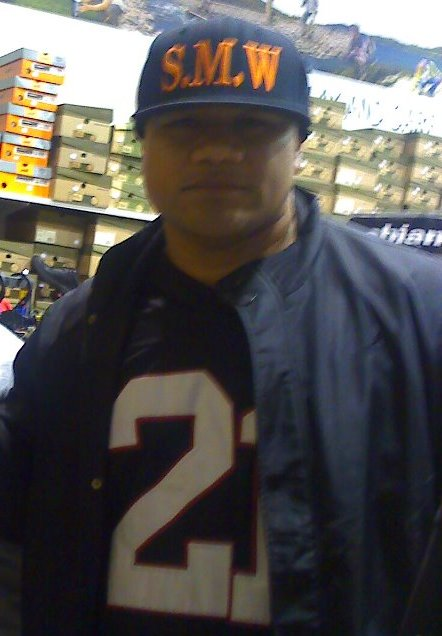 Mark Paul with David Tua